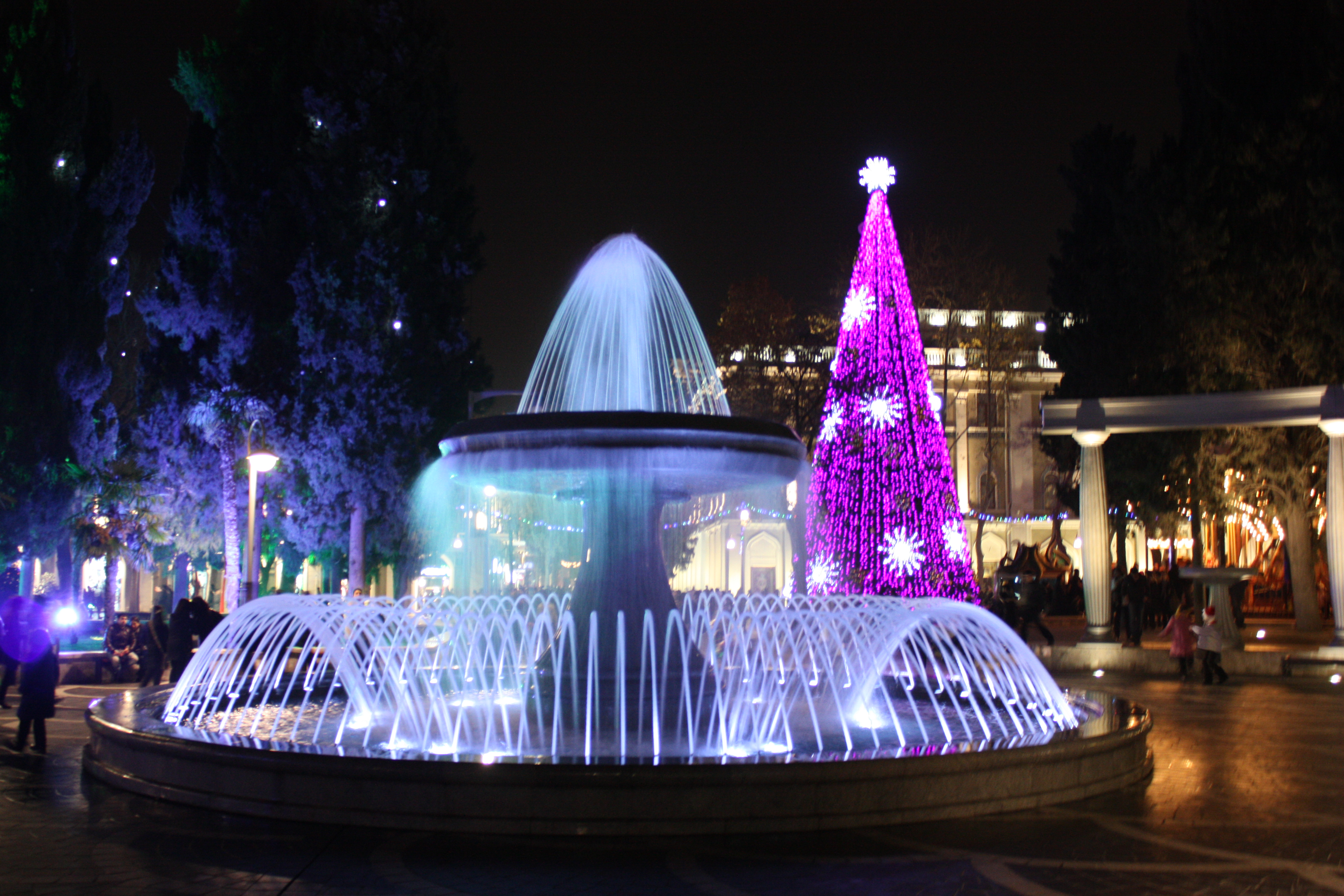 Fountains Square in Christmas time.